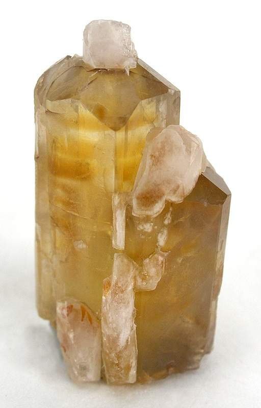 Baryte Locality: Brukeros, Namibia Size: miniature, 3.7 x 2.0 x 1.9 cm Barite A very unusual, attractive crystal from ANY locality and by far one of the finest in quality we have seen from this remote locale out of a dozen in the collection. I'll b ehonest and admit that, because of the weird secondary growths here, combined with deep amber hue, I thought this was a beryl at first